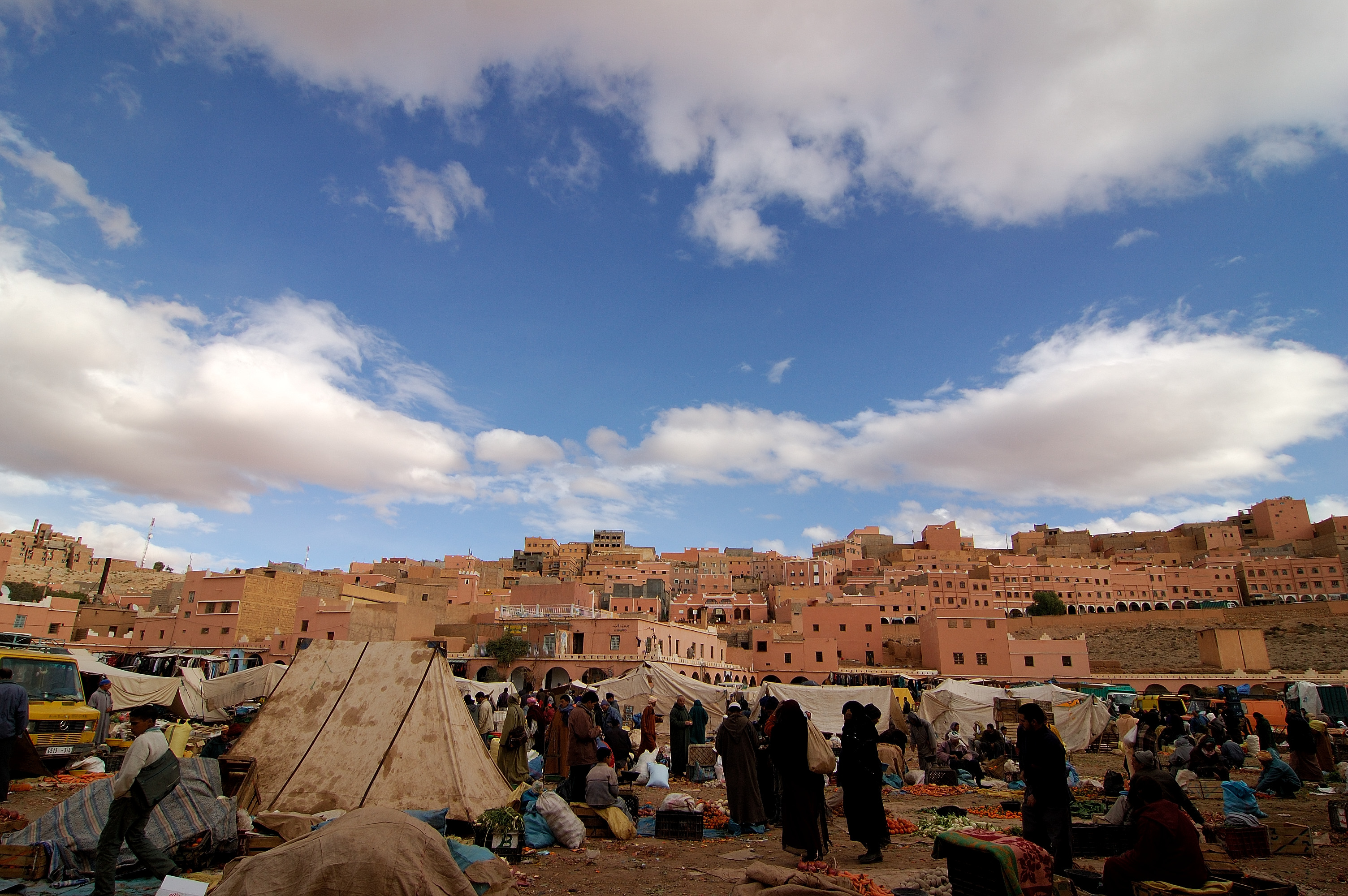 Market in Boumalne du Dades, Morocco, Africa.